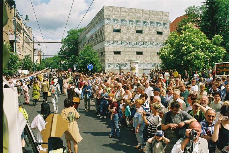 The library of the Eberswalde University for Sustainable Development in Eberswalde, Germany Camera: Pentacon SIX/Fisheye Arsat 30mm